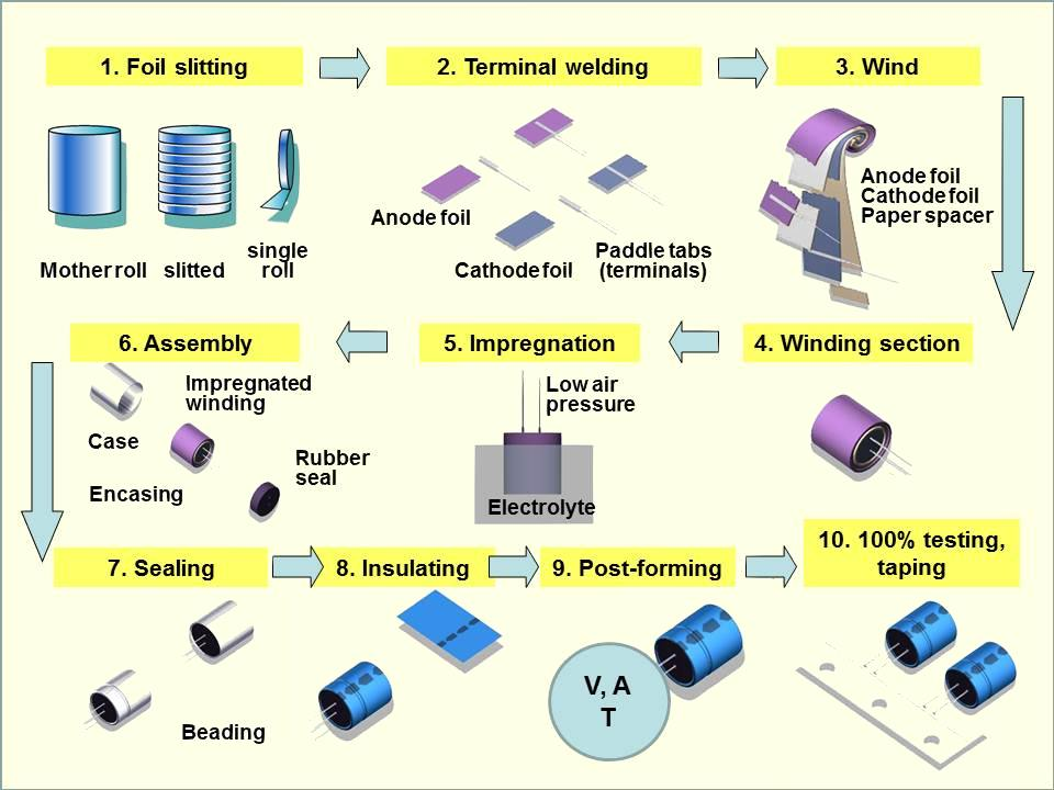 Production flow chart of a single-ended electrolytic capacitor production